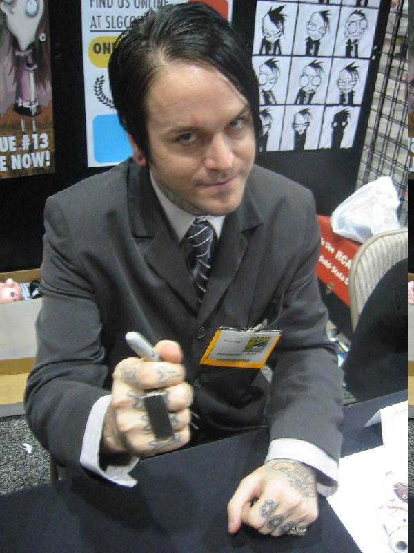 Comic Book creator Roman Dirge has knuckles Vader would appreciate. Photo by Bonnie Burton. Read more about Comic-Con 2007 on the Official blog.